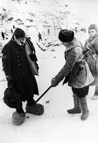 “Improvised winter boots”. Improvised Winter boots. Battle of Stalingrad. Great Patriotic War of 1941-1945.